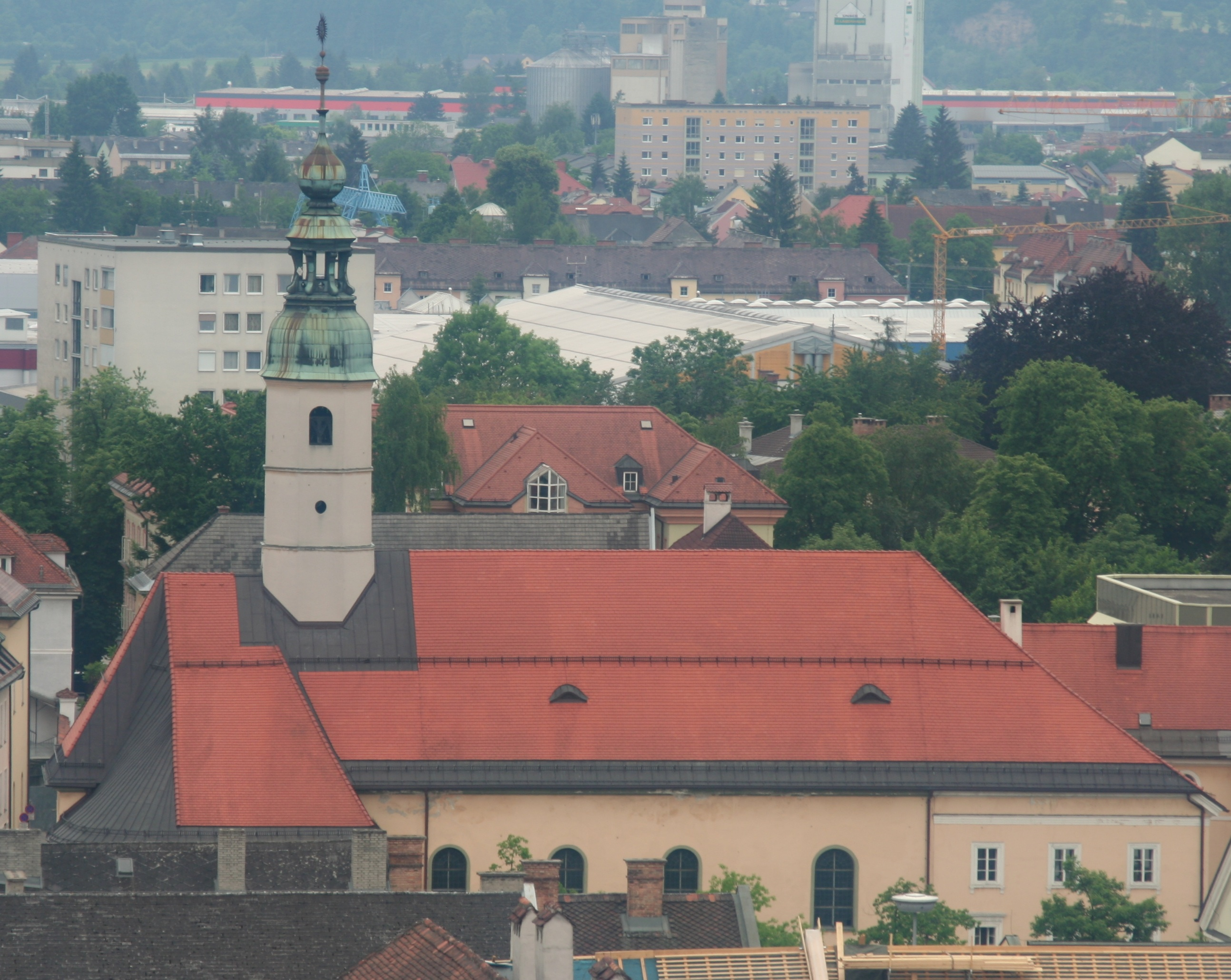 Marienkirche Locality: Bendiktinermarkt Community:Klagenfurt